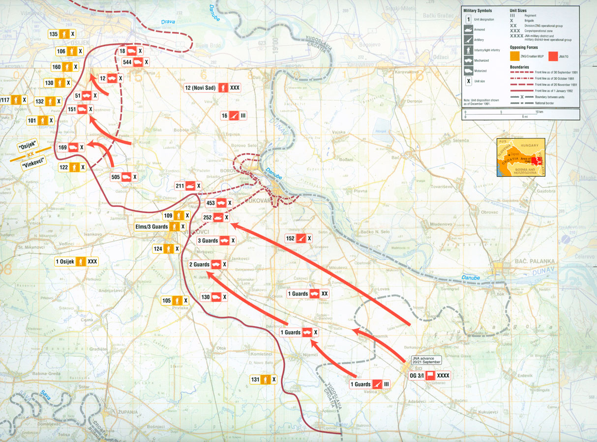 Map of military operations in eastern Slavonia, Croatia, September 1991 - January 1992 This image is available from the United States Library of Congress's Geography & Map Division under the digital ID g6841sm.gct00210. This tag does not indicate the copyright status of the attached work. A normal copyright tag is still required. See Commons:Licensing for more information.